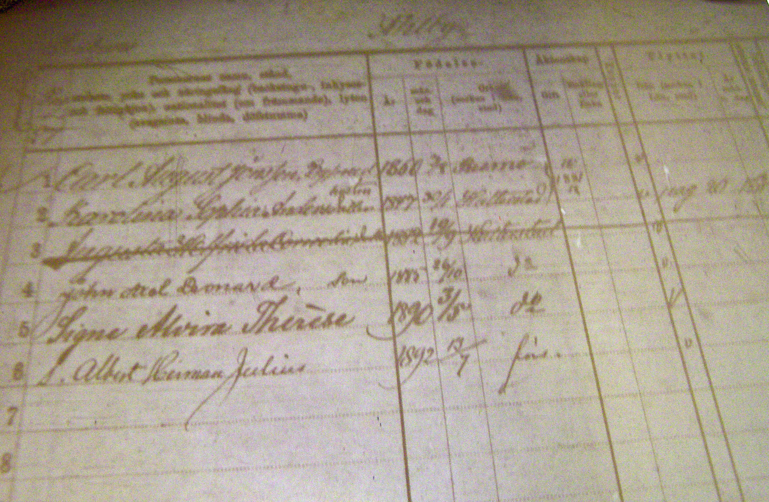 i took this photo in July 2006 and release rights